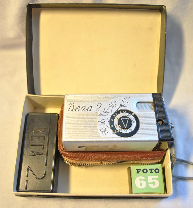 Vega-2 Soviet 16 mm camera kit, Kiev Arsenal factory, 1961